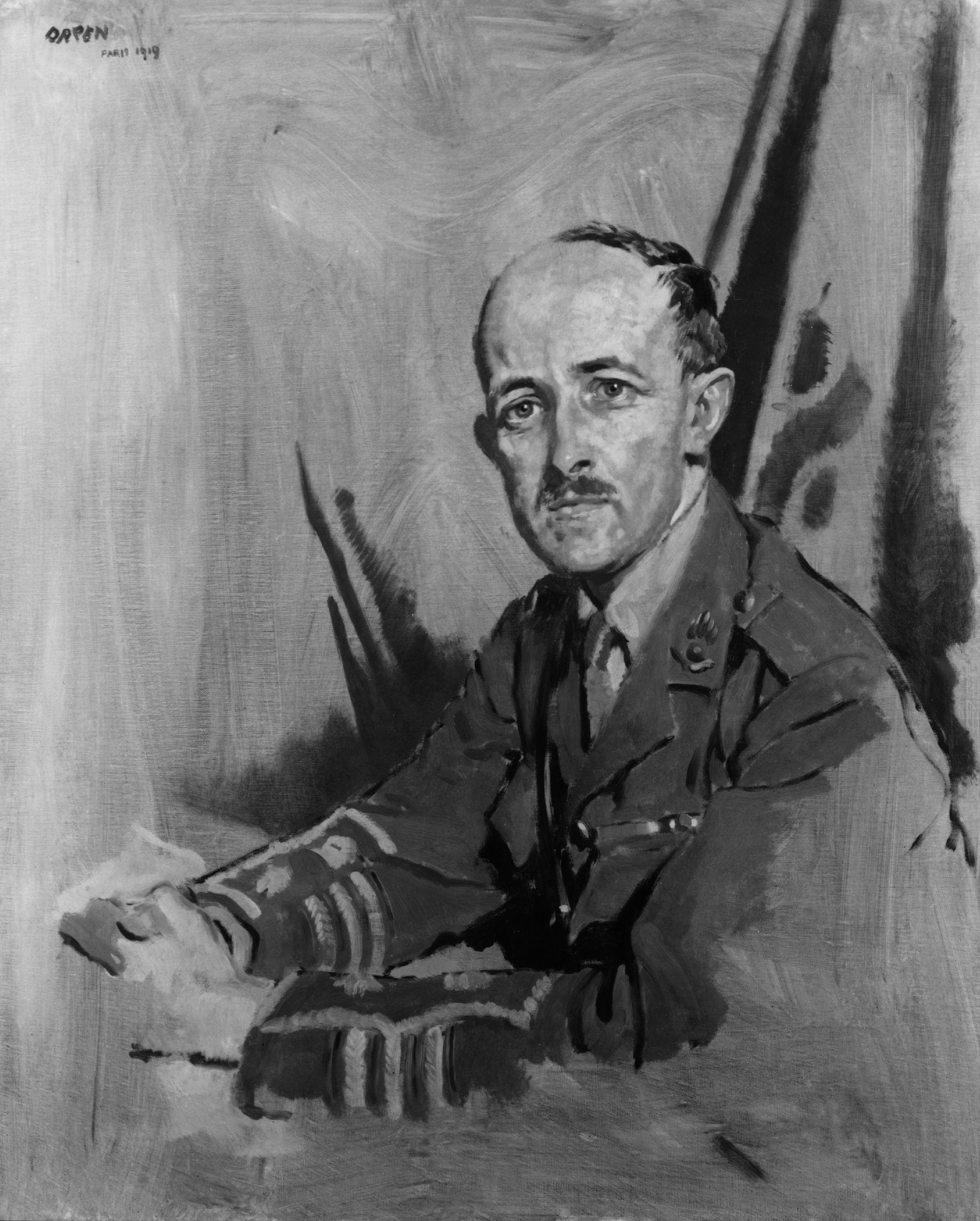 Maurice Pascal Alers Hankey, 1st Baron Hankey, by Sir William Orpen (died 1931), given to the National Portrait Gallery, London in 1968. All images in this batch have been confirmed as author died before 1939 according to the official death date listed by the NPG.